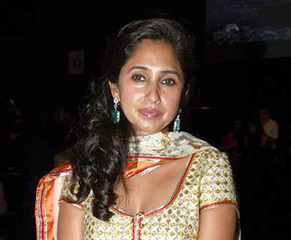 Rinke Khanna at the BMW India Bridal Fashion Week, 2015.